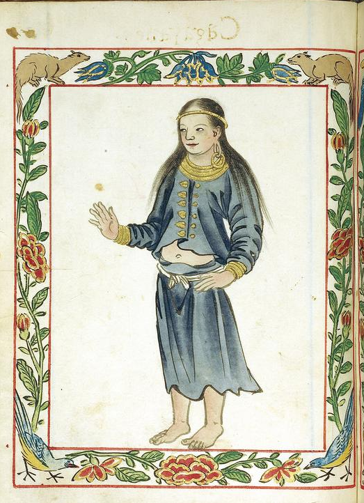 Cagayan Valley Woman from the Boxer Codex